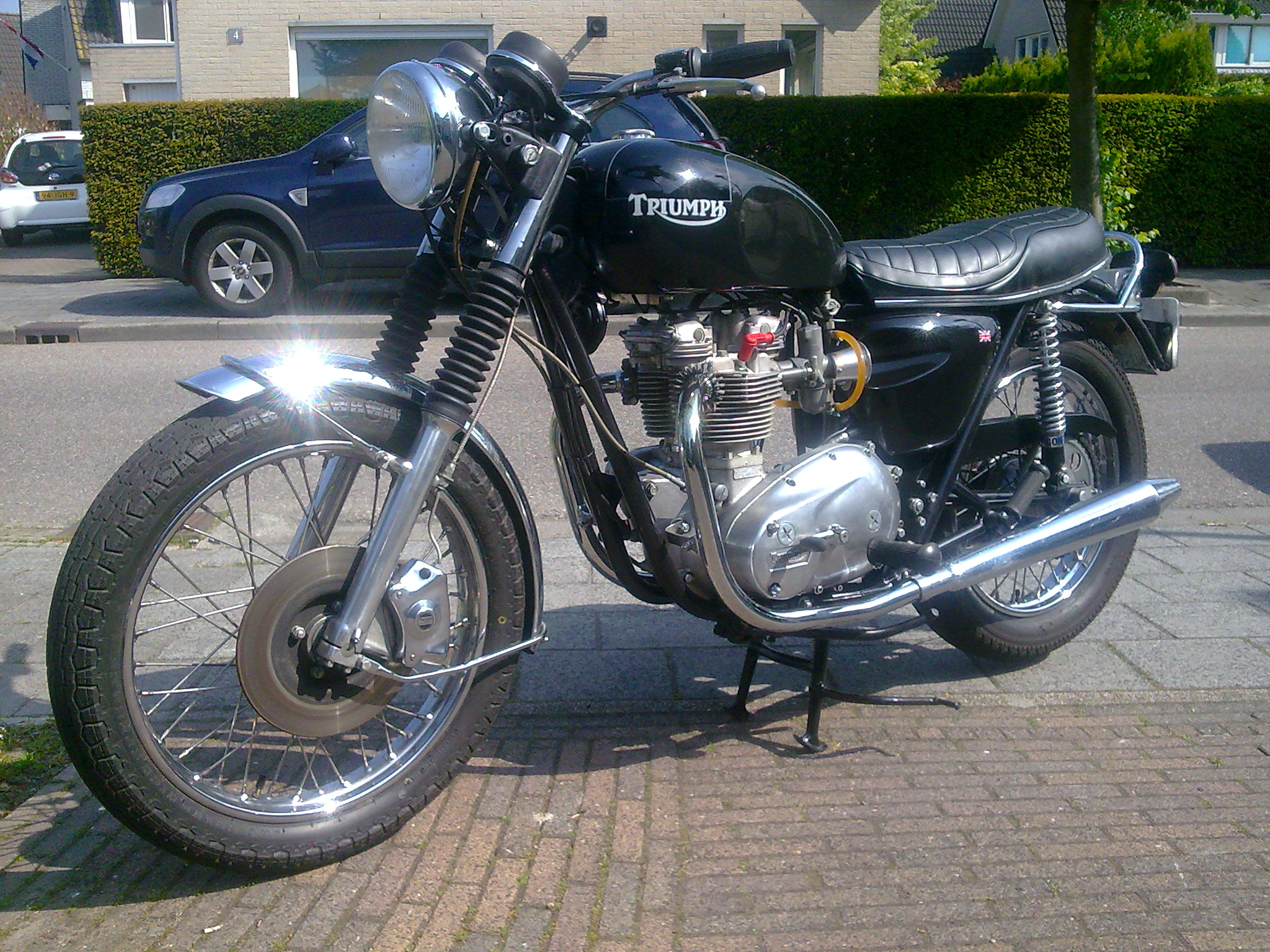 1977 Triumph Bonneville T140 V 750 cc (Almost original except: Oiltank, Airfilters, Exhaustpipes and Taillight)